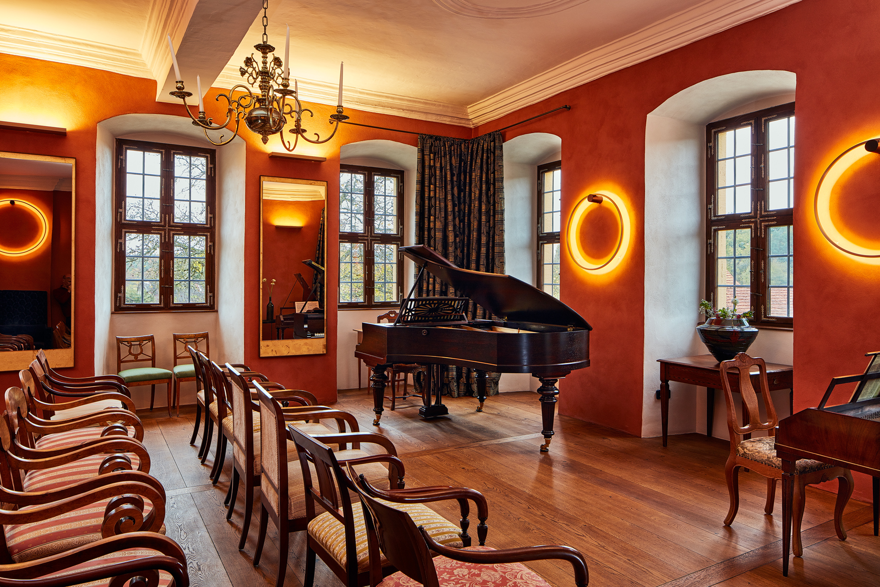 concertroom in castle Schloss Weissenbrunn